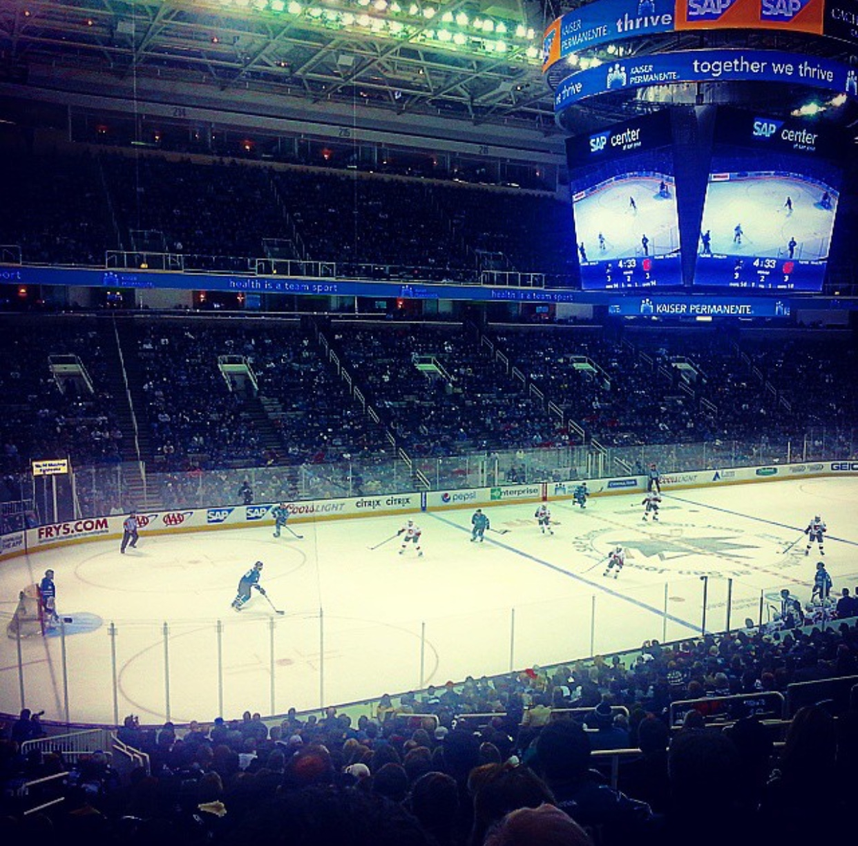 SAP Center Interior during Sharks’ game vs Calgary Flames January 2015